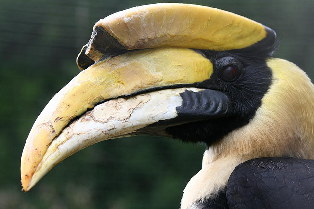 Greater Indian Hornbill (buceros bicornis) in Tweksberry(?) Park.